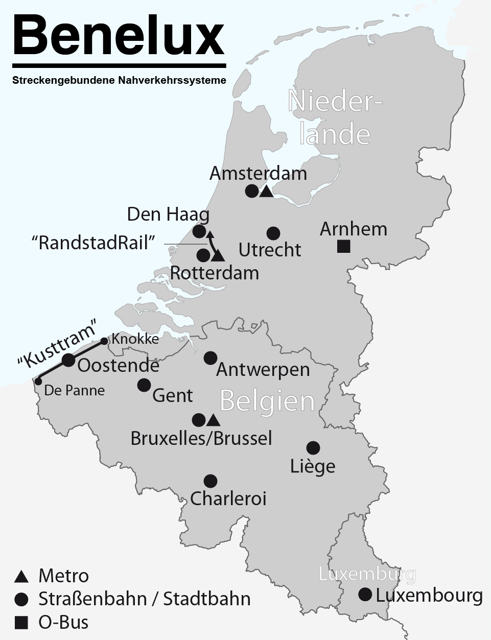 Map of fixed-route public transport systems (Rapid Transit and Light Rail Transit systems, tram, trolleybus) in Benelux